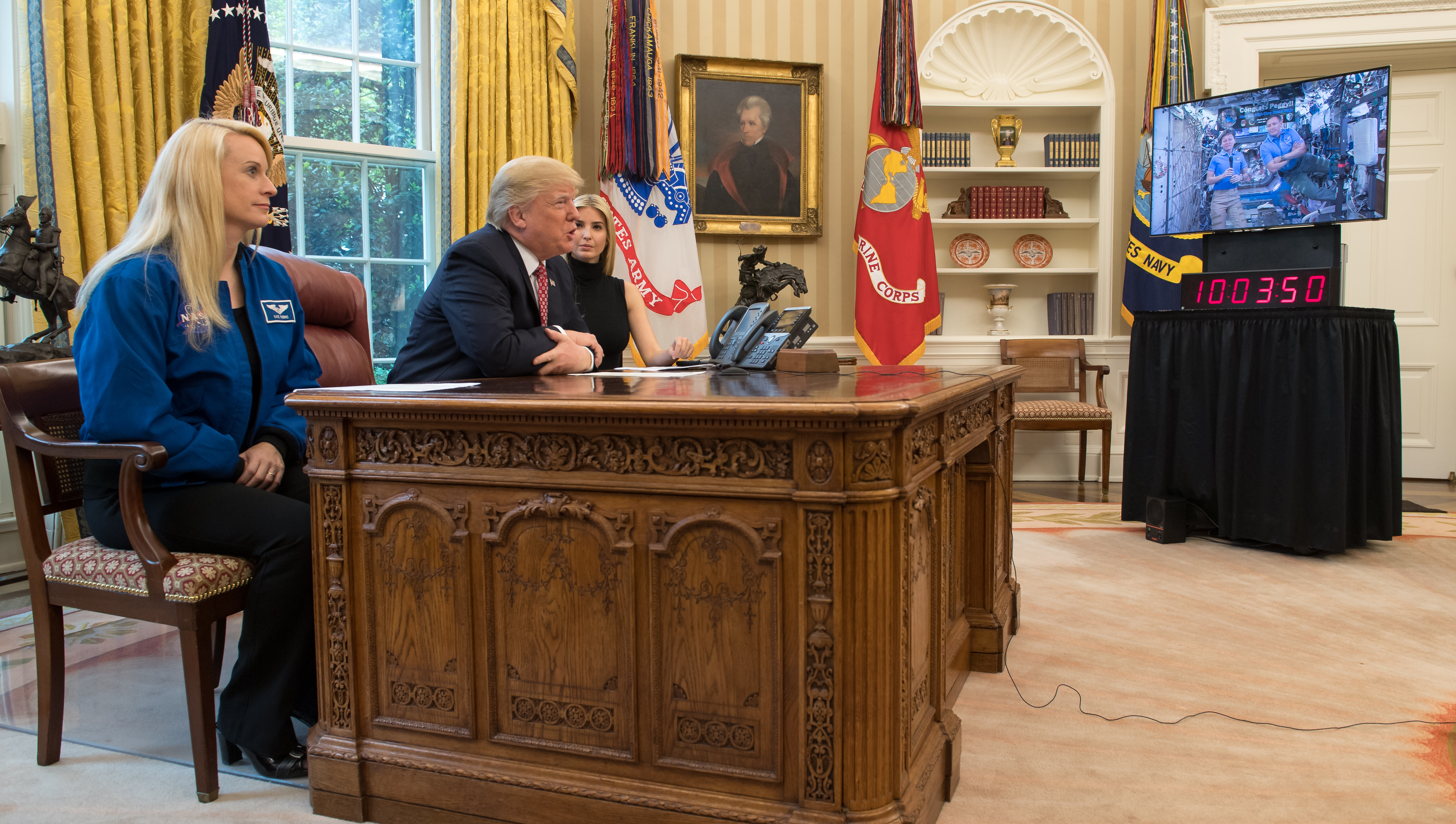 President Donald Trump, joined by NASA astronaut Kate Rubins, left, and First Daughter Ivanka Trump, talks with NASA astronauts Peggy Whitson and Jack Fischer onboard the International Space Station Monday, April 24, 2017 from the Oval Office of the White House in Washington. The President congratulated Whitson for breaking the record for cumulative time spent in space by a U.S. astronaut. The President and First Daughter also discussed with the three astronauts what it is like to live and work on the orbiting outpost as well as the importance of STEM.